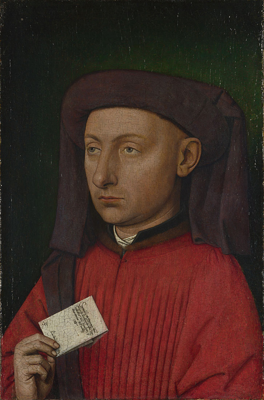 Portrait of Marco Barbarigo. National Gallery, London